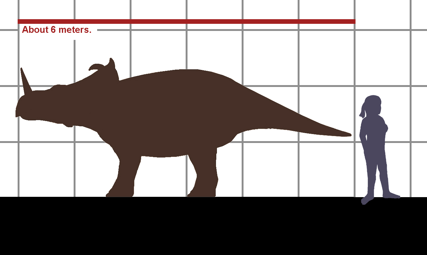 Size comparison between the horned dinosaur Centrosaurus* with a human.